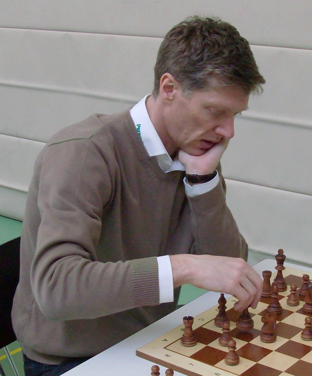 Felix Levin, chess grandmaster from Ukraine